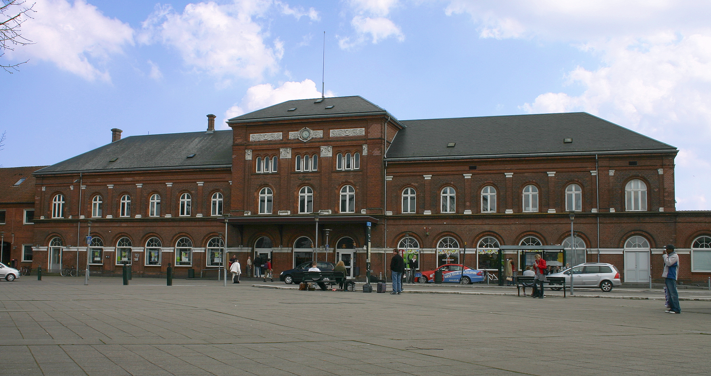 The first trainstation in Kolding was built in 1866 and later more appeared,but the biggest and only one left is Banegården from 1884.Architect is Thomas Arboe.